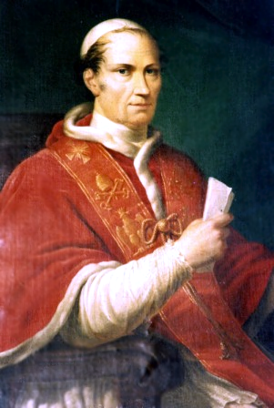 Pope Leo XII